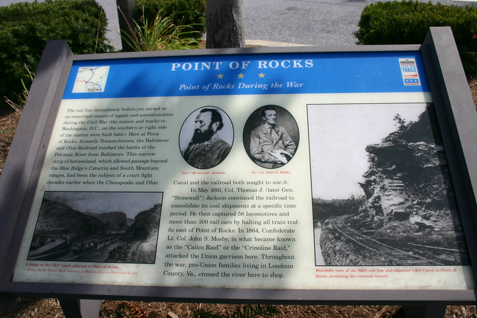 CWT sign for May raid on B&O by Stonewall Jackson